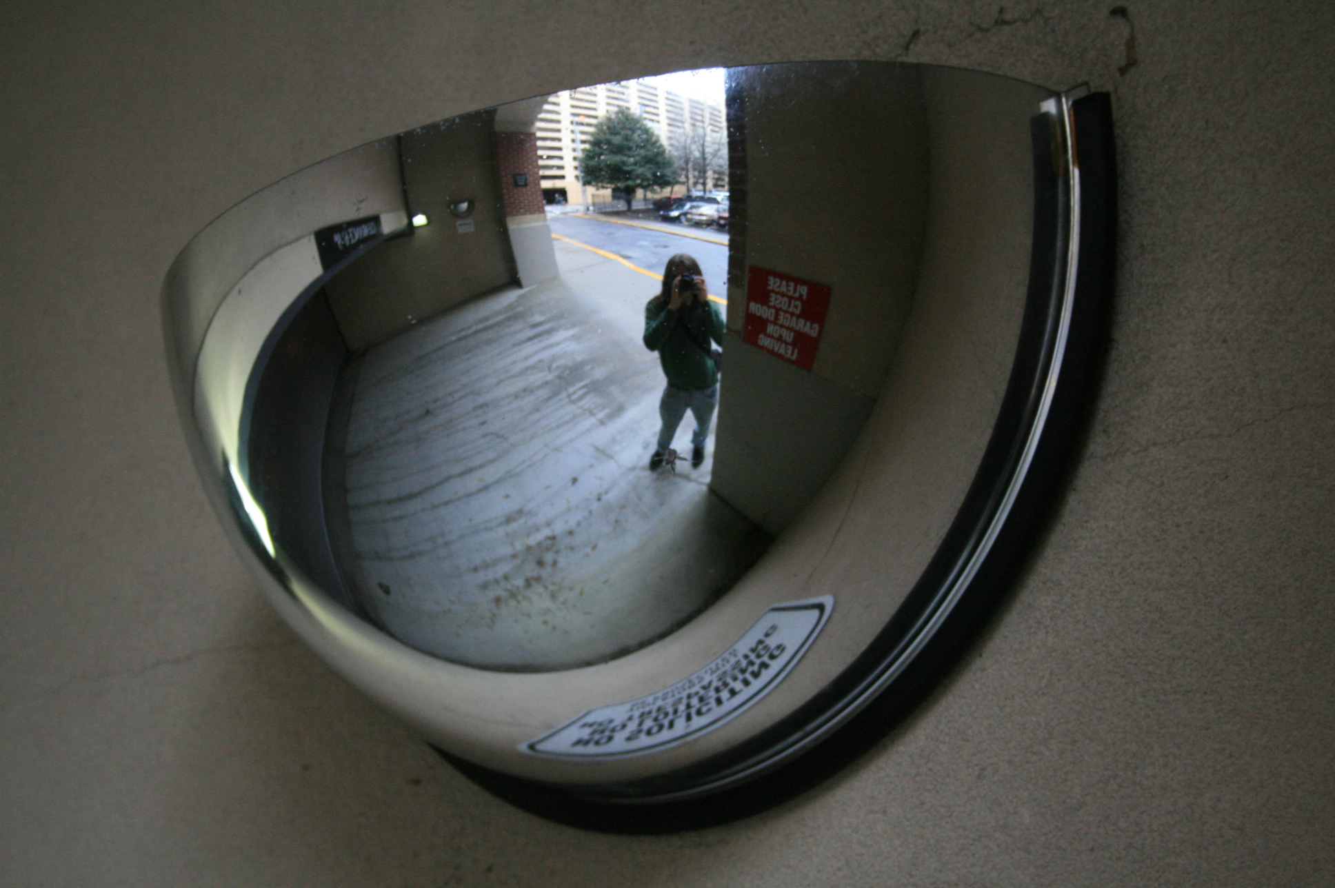 Convex mirror inside a parking garage entrance in Atlanta, Georgia.